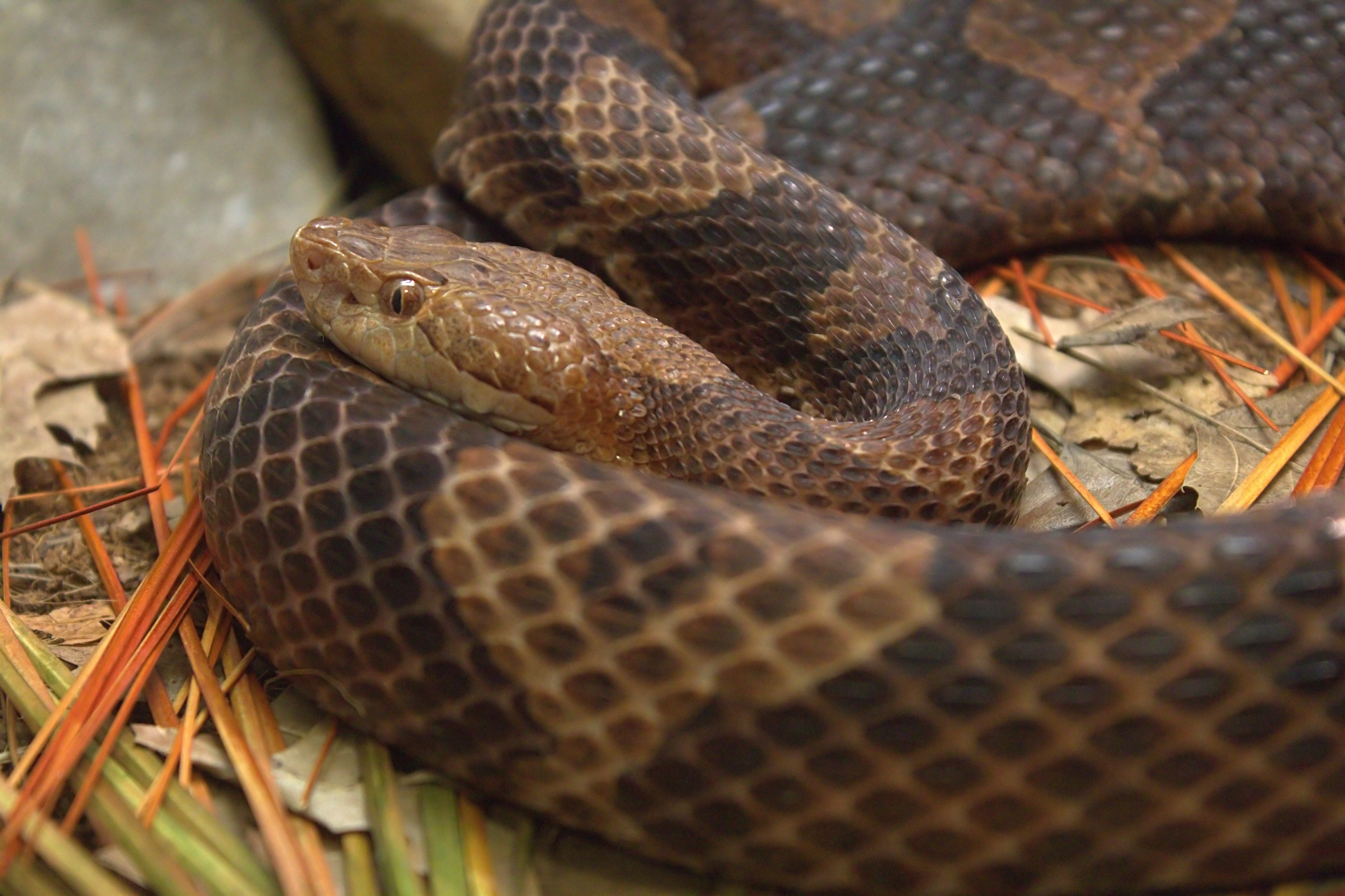 Agkistrodon contortrix taken at the Cincinnati Zoo.